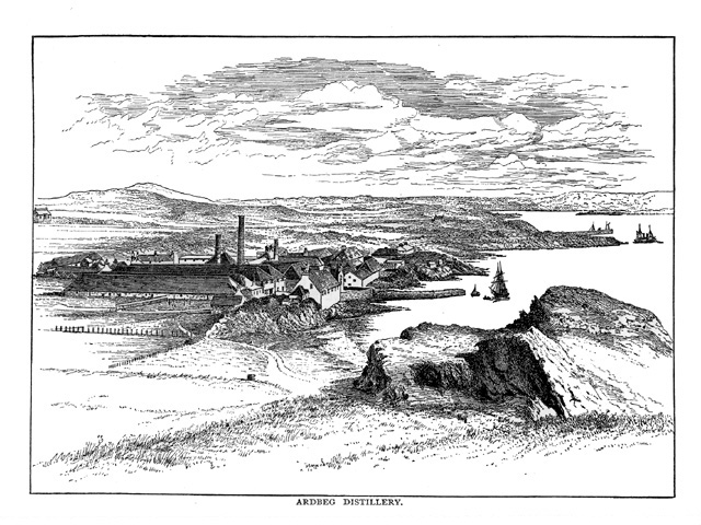 View of the Ardbeg distillery in 1887, from Alfred Barnard.